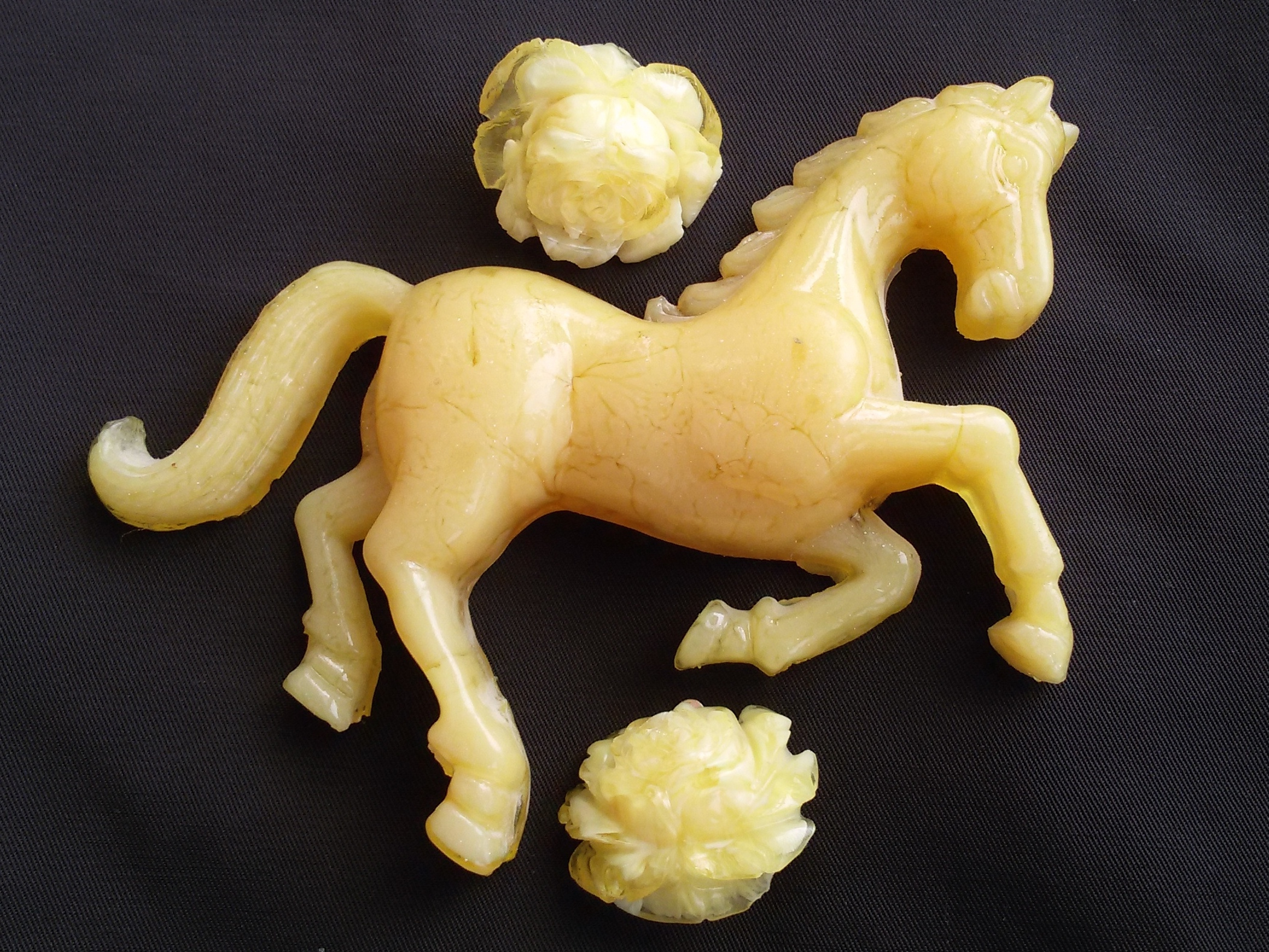 Amber imitation from plastic and amber dust. Russia, Kaliningrad.